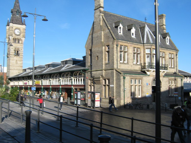 Darlington Old Town Hall, Market Hall and Clock Tower Built in 1853 with the covered market and tower added in 1864.